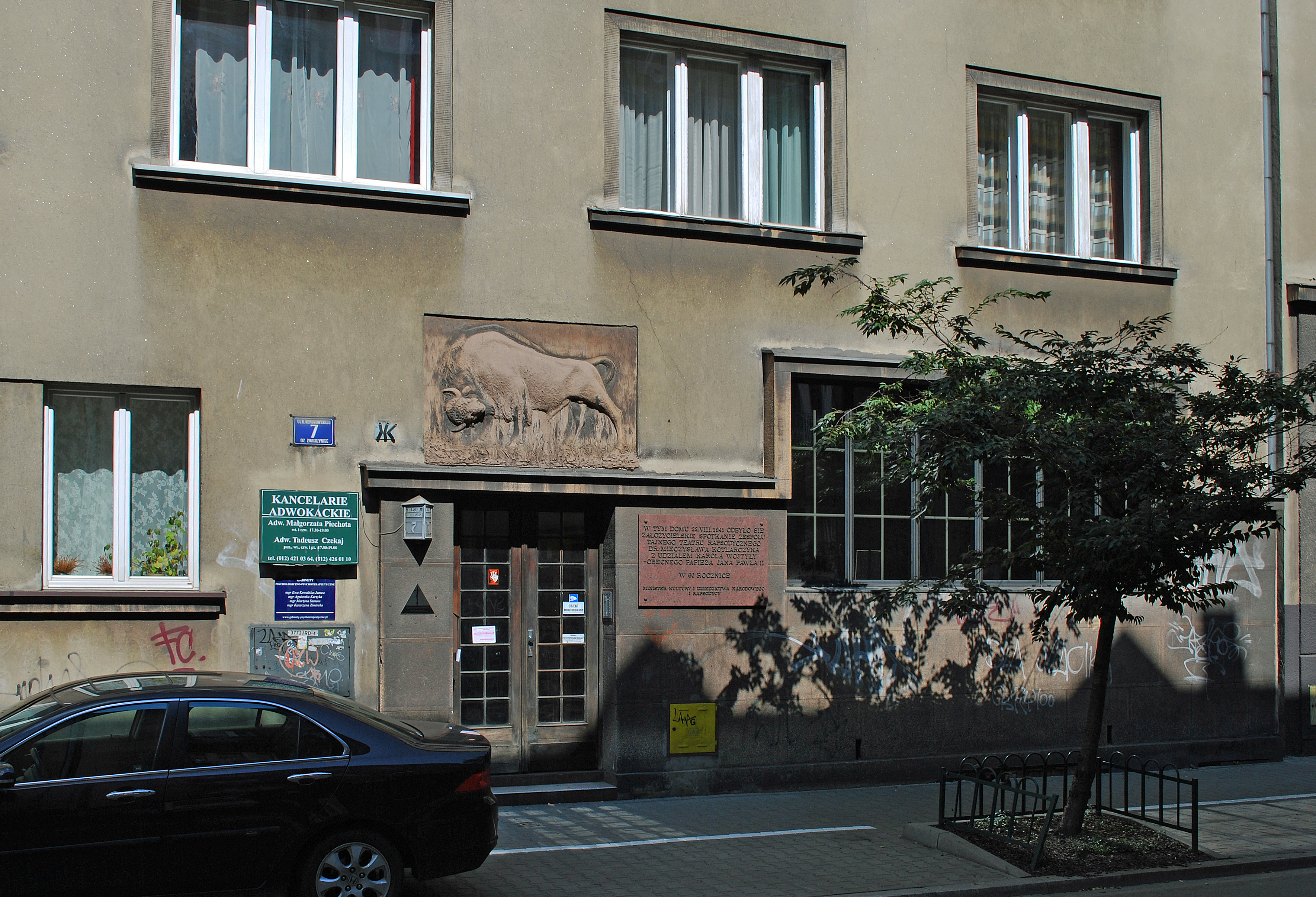 Tenement house, 1936 designed by Bogdan Laszczka, 7 Komorowskiego street, Krakow, Poland